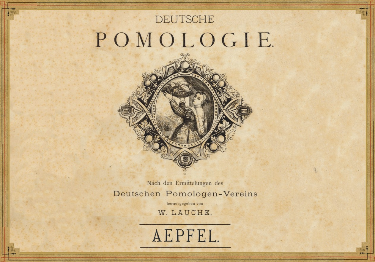 Cover from Deutsche Pomologie — Aepfel Published by Deutsche Pomologen-Vereins (German Pomological Society).